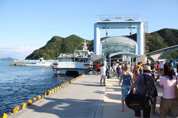 Akajima Port